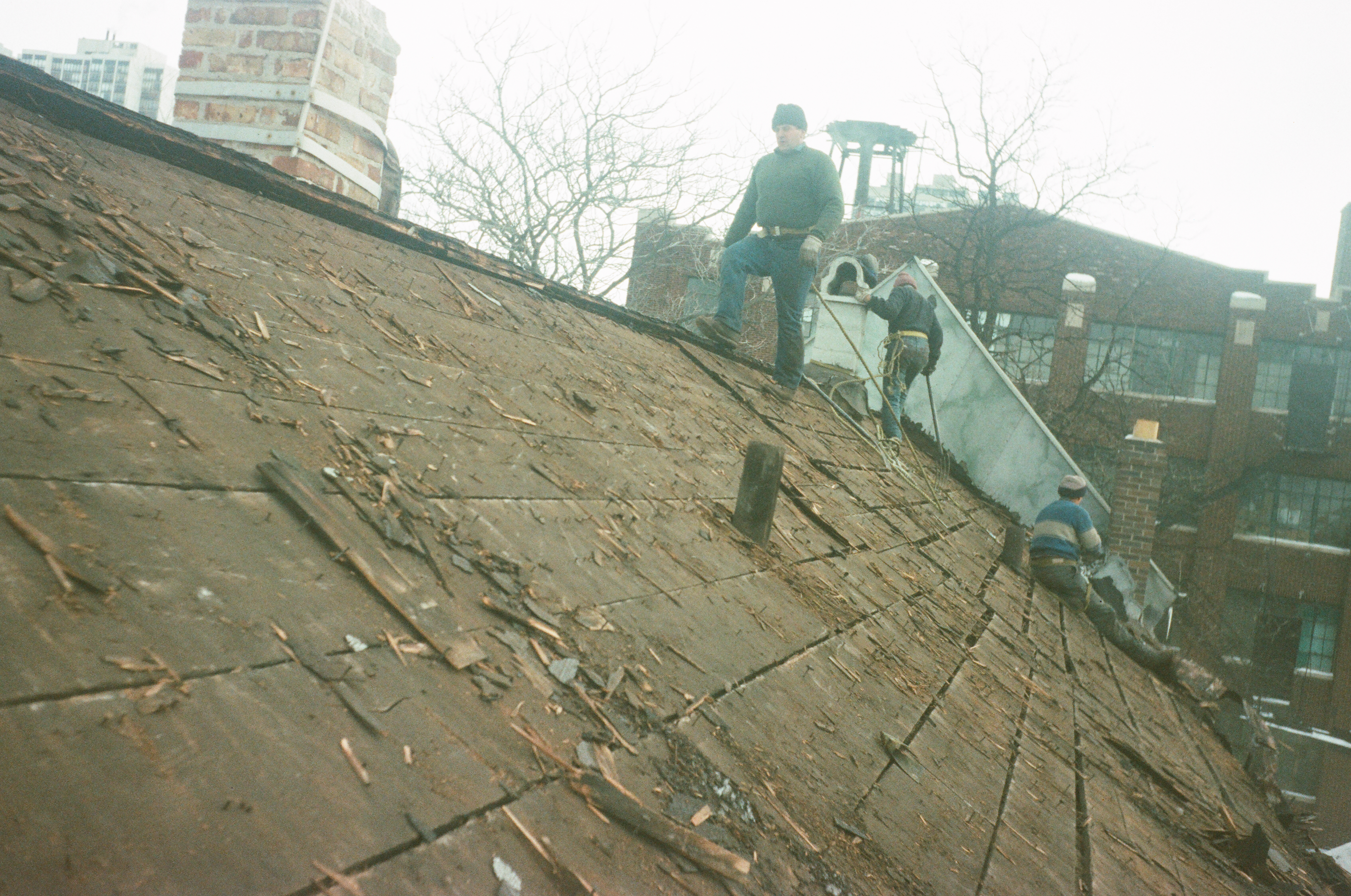 Photography by Victor Albert Grigas (1919-2017) circa 1990 000051460020 Photography by Victor Albert Grigas (1919-2017)